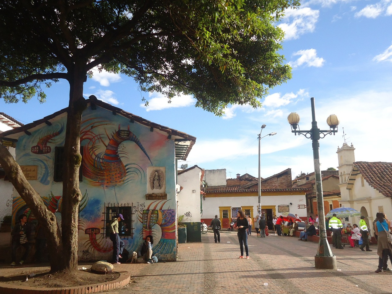 Plazoleta del Chorro de Quevedo, a plaza in La Candelaria, a locality of Bogota, Colombia.